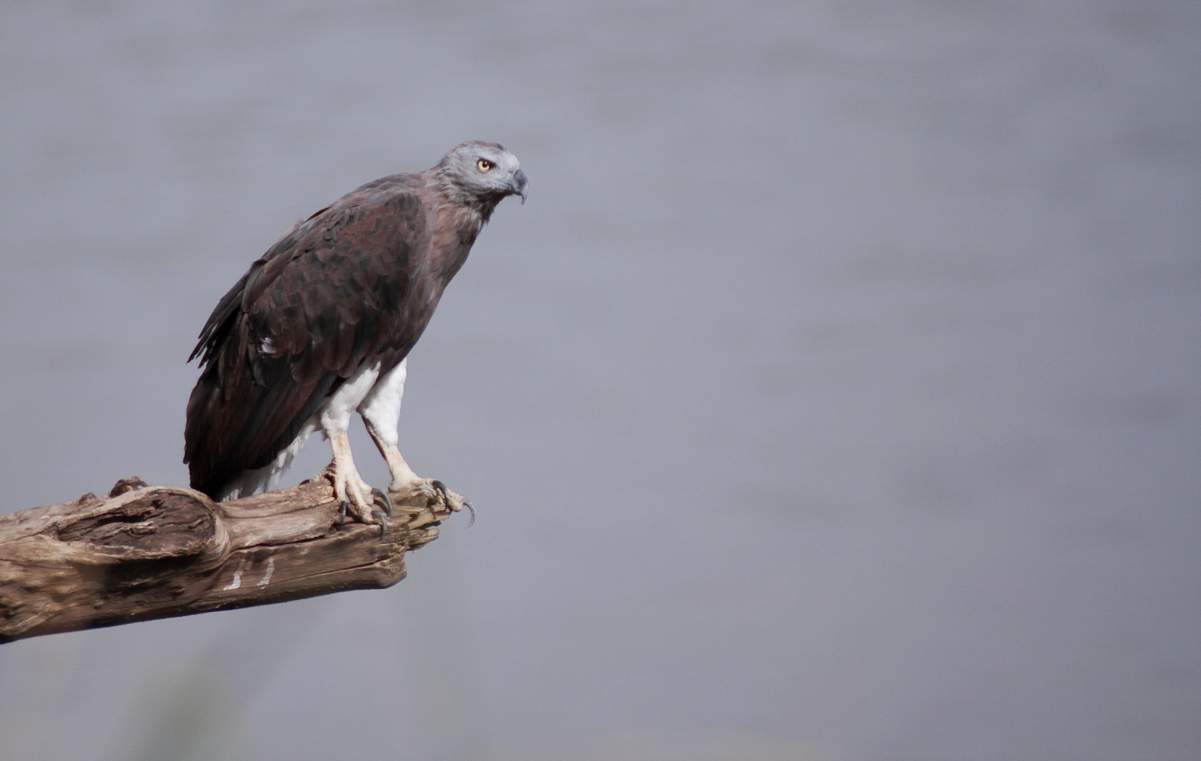 Grey-headed Fish Eagle Haliaeetus ichthyaetus, Panna National Park, IndiaHrvatski: Sivoglavi orao ribar Haliaeetus ichthyaetus